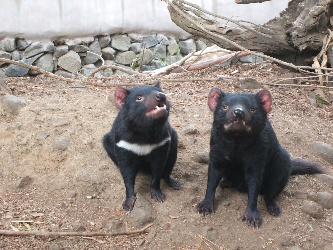 A tasmanian devil with white markings and a melanic tasmanian devil (no white markings).